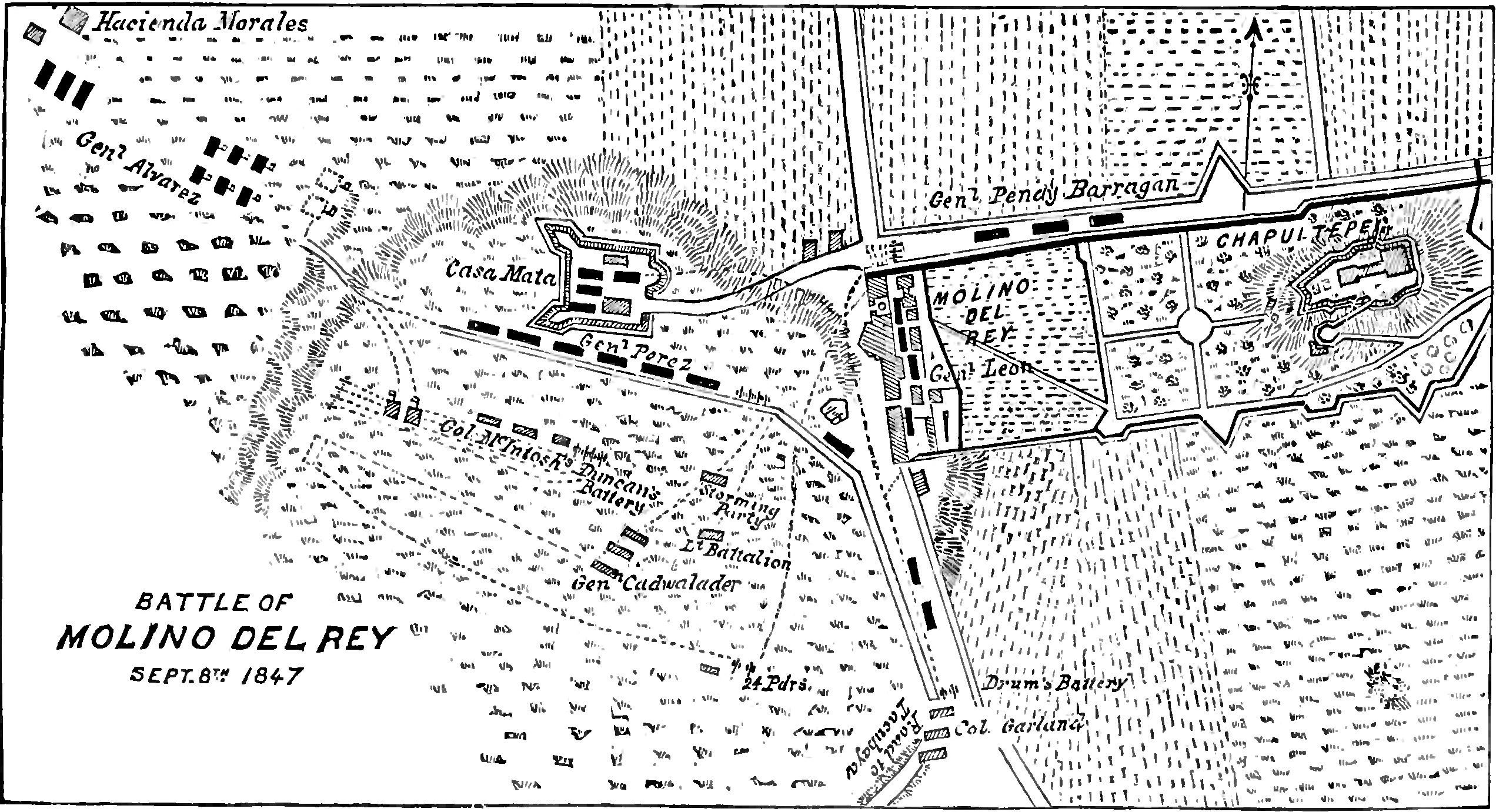 Battle of Molino del Rey Sept. 8th 1847